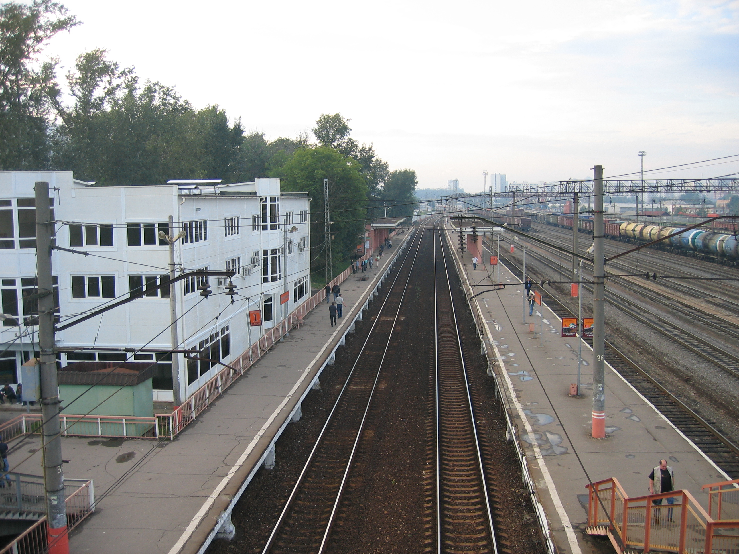 Train station Beskudnikovo, Moscow